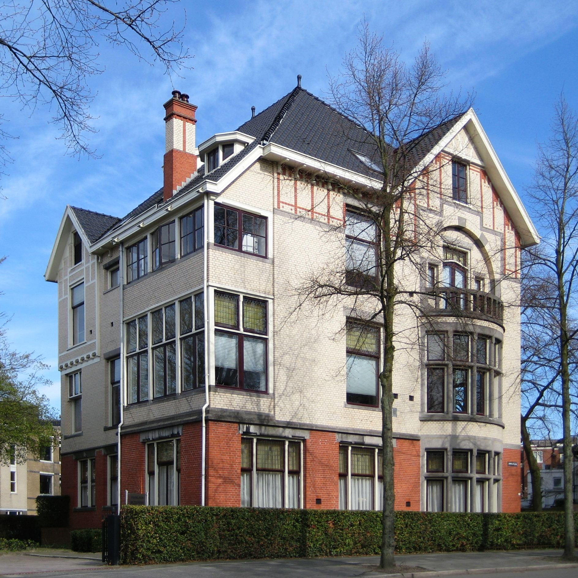 A villa (1905) in the Dutch city of Groningen.